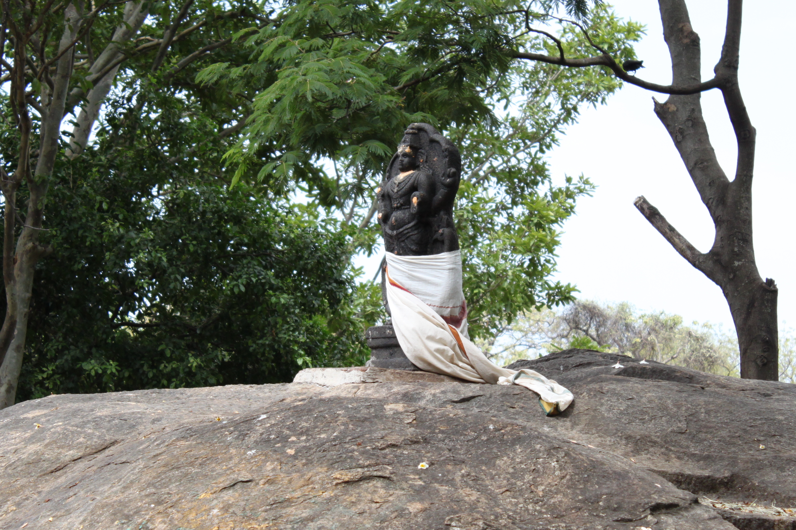 This photo shows a statue of Lord Murugan, a Hindu Deity,at The Kumbakarai Falls near Madurai, India.